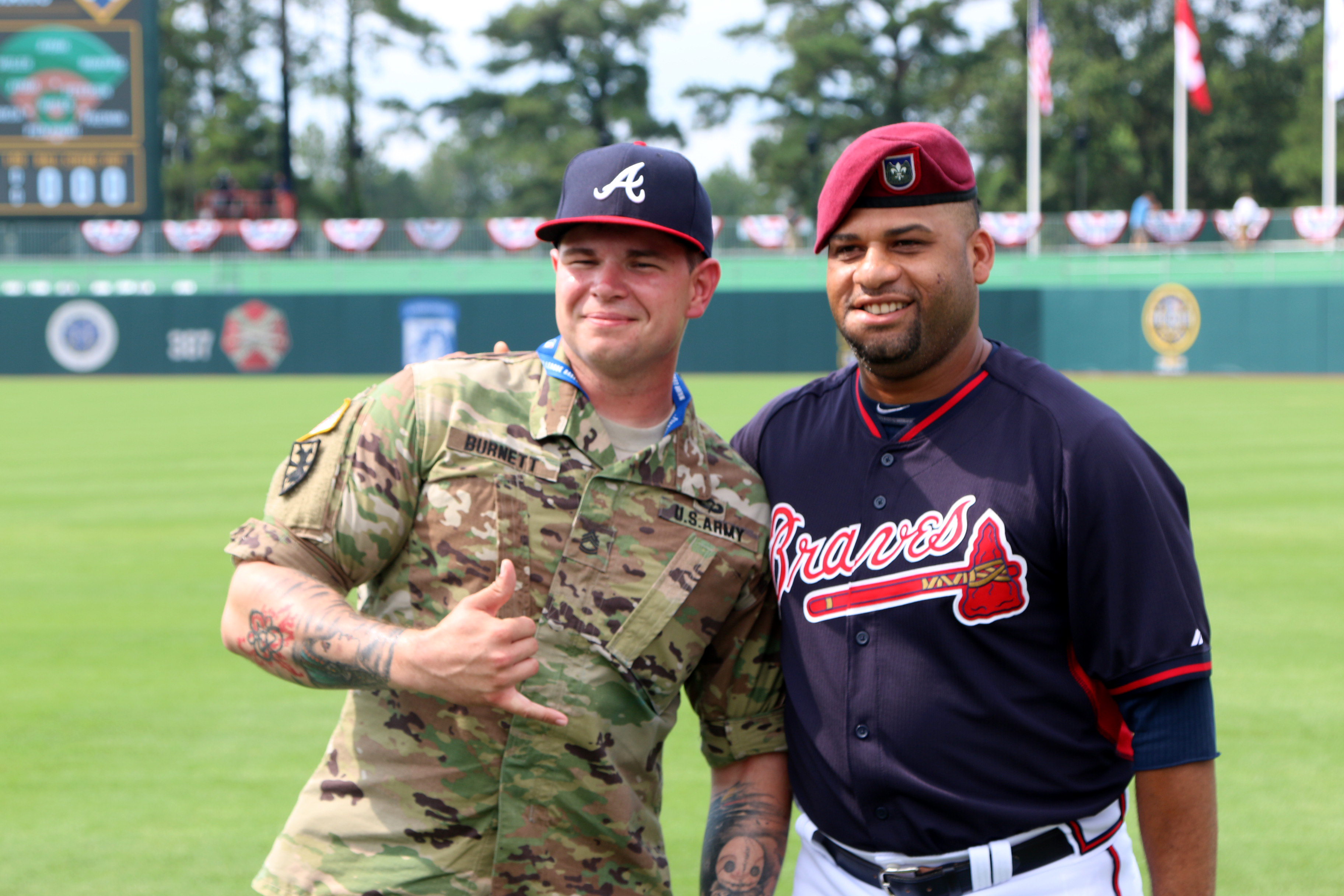 Sgt. 1st Class Alex Burnett, Public Affairs Noncommissioned Officer, 82nd Airborne Division, and Atlanta Braves pitcher Arodys Vizcaino switch head gear on Sunday, July 3, 2016, prior to the start of the Miami Marlins and Braves regular season game at Fort Bragg, N.C. Fort Bragg, MLB and the MLB Players Association teamed up to put on the historic regular season game between the Braves and Marlins at Fort Bragg.(US Army photo by Staff Sgt. Jason Duhr) Unit: 108th Air Defense Artillery Brigade